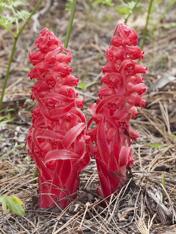 Sarcodes sanguinea — Snow plant. A parasitic plant that derives sustenance from mycorrhyzal fungi that attach to roots of trees, thus facilitationg transfer of such nutrients between host and parasite. *Yuba Pass, Sierra County, Sierra National Forest, California — on June 19.